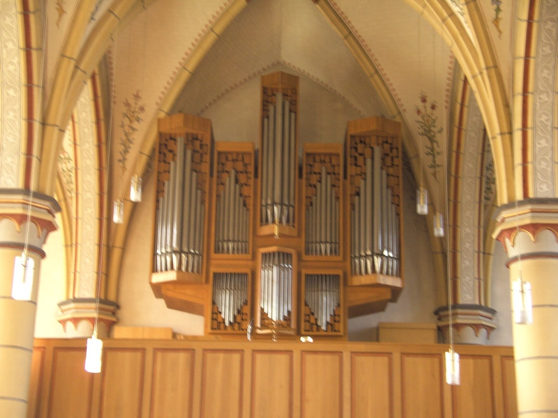 organ of st. peter's church Theley, Germany